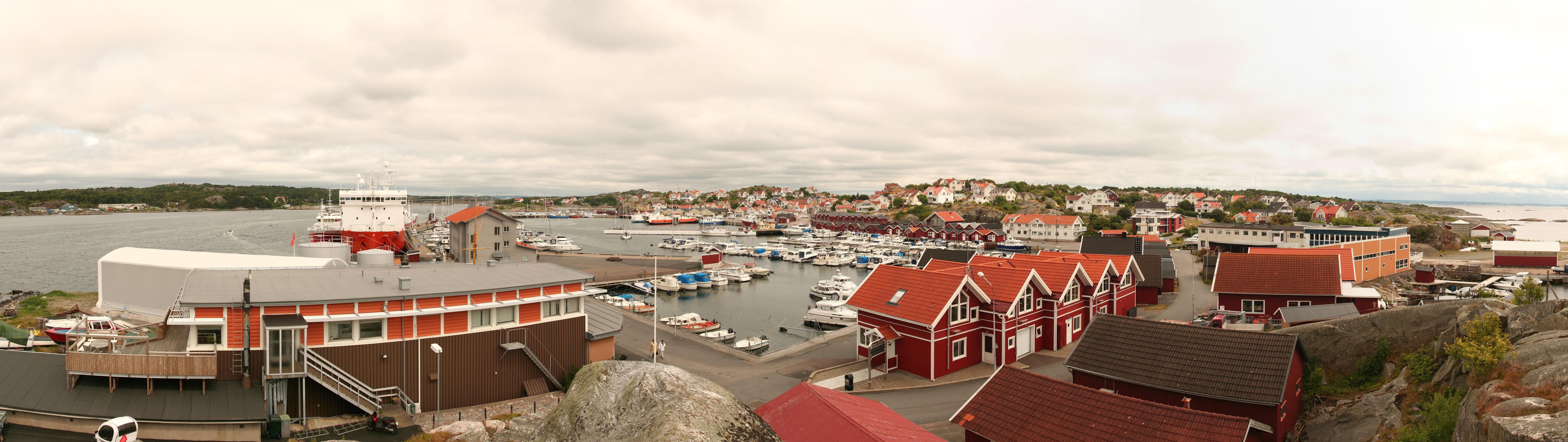 Panorama view from the south of the harbour of Donsö. The big ship is M/S Sigyn.